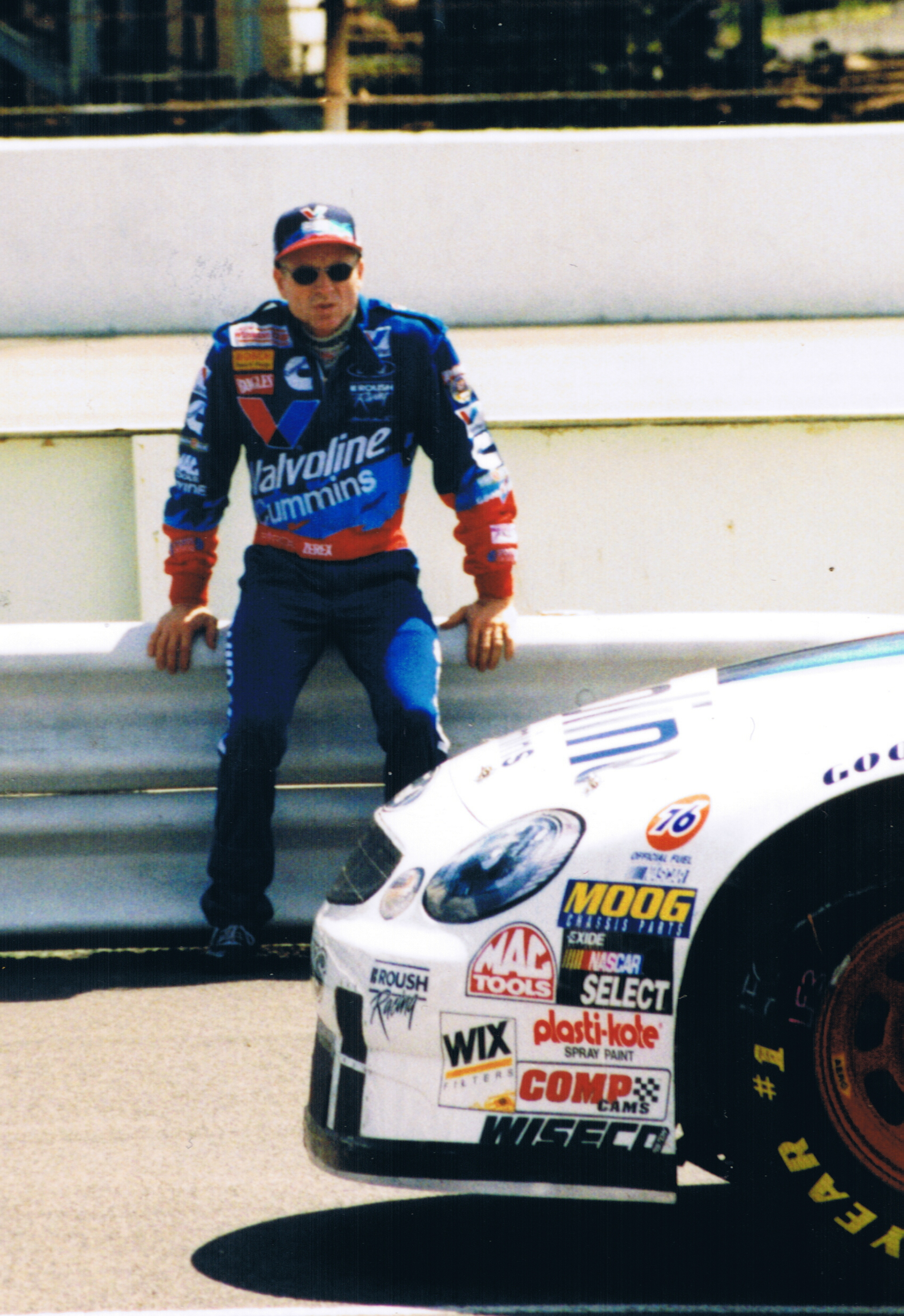 Mark Martin at Pocono Raceway, 1998